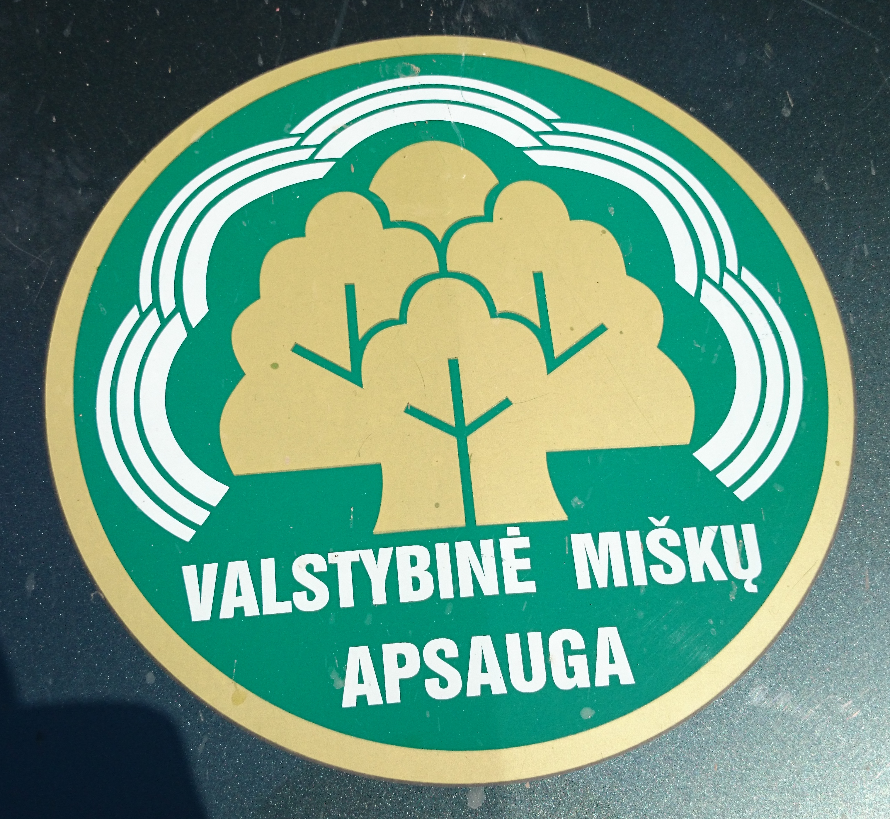 Valstybinė miškų apsauga